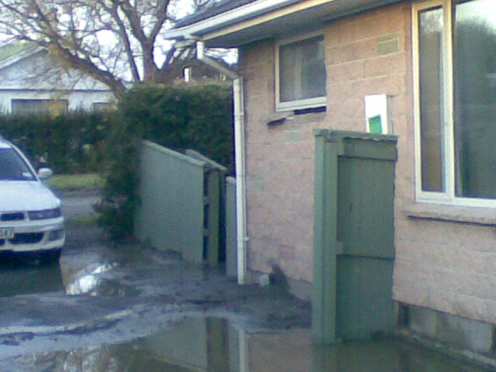 Lquifaction in Bexley, Christchurch, 2011